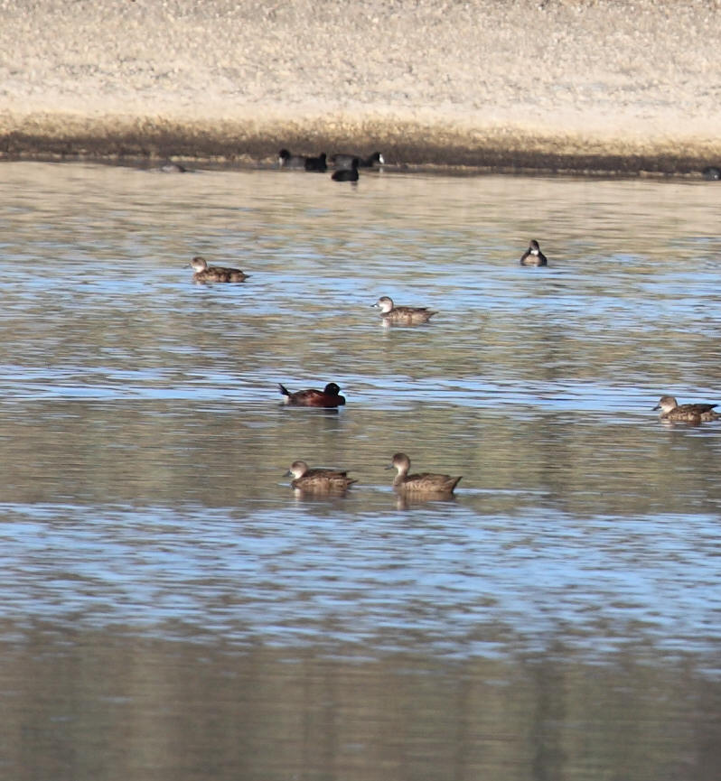 Blue-billed Duck (Oxyura australis), Northern Territory, Australia